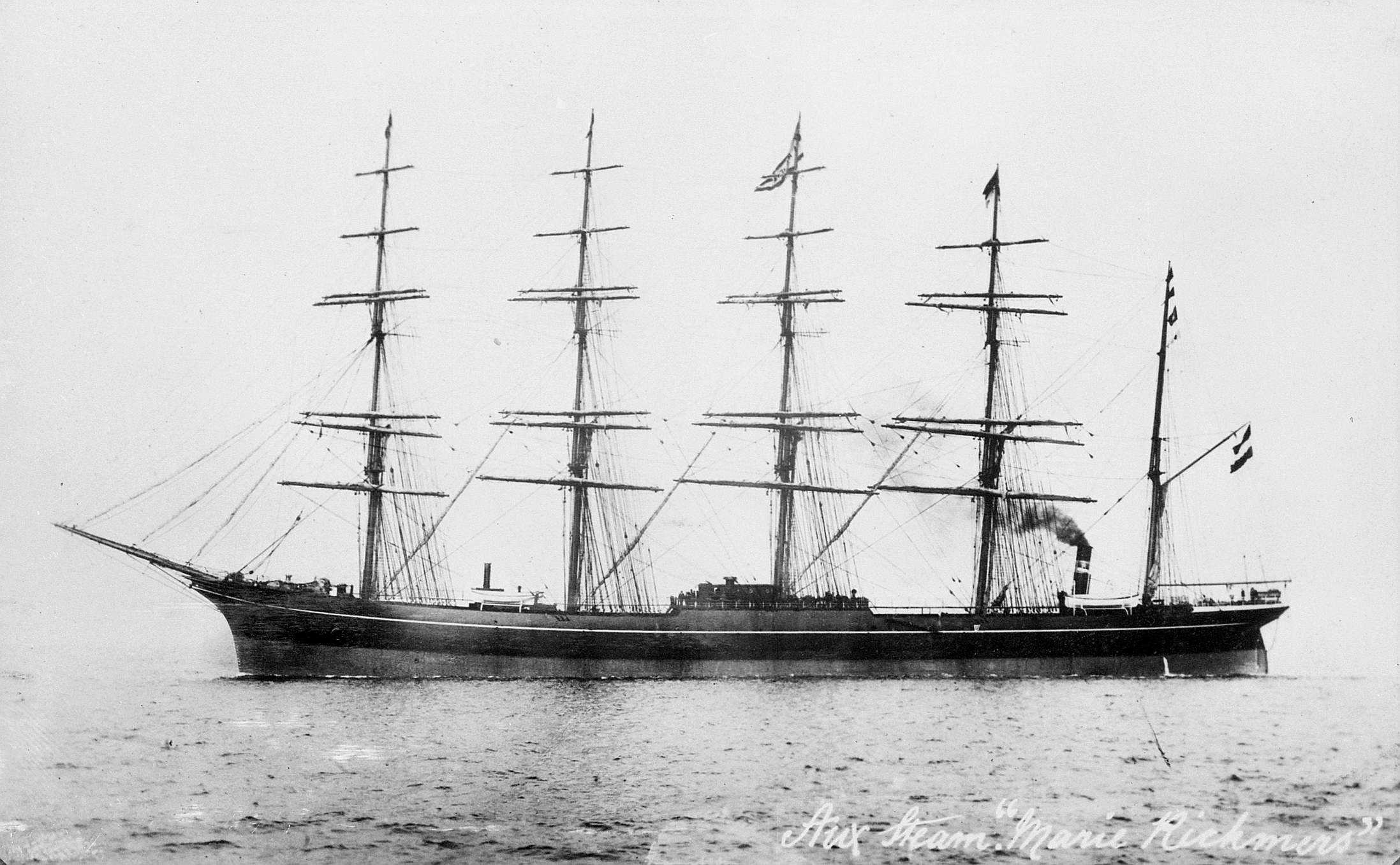 The ship „Maria Rickmers“ was built in 1891, weighing 3,813 tons. The ship disappeared in 1892, on a journey from Saigon to Bremen.